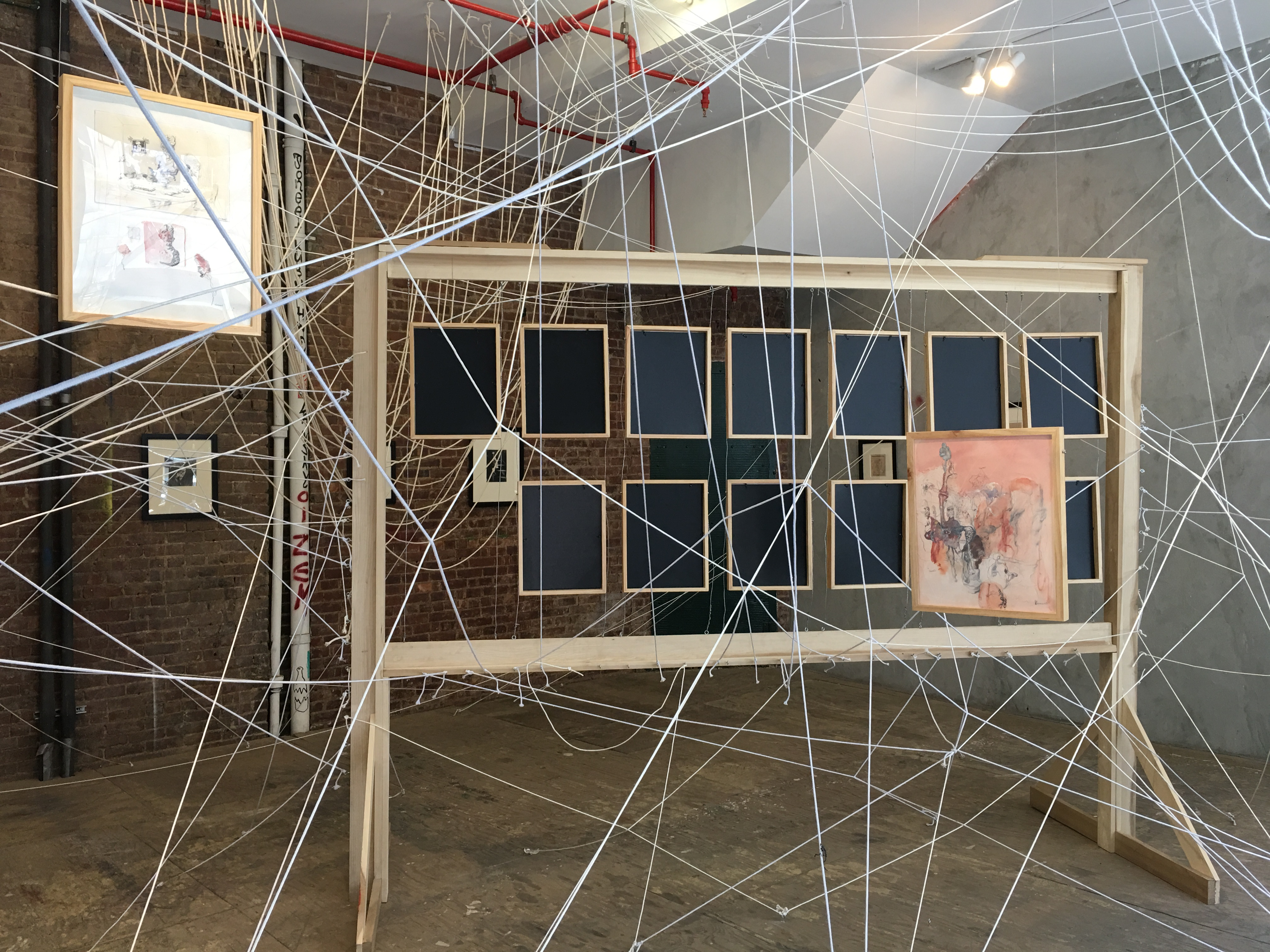 Installation view of Keunmin Lee and Hans Bellmer